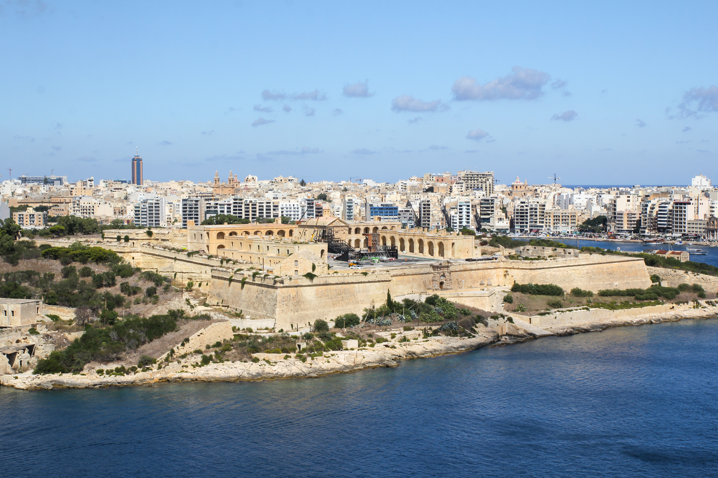 Fort Manoel from St. Michael's Bastion, Valletta, Malta